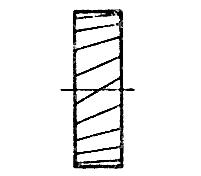 Sprocket Wheel